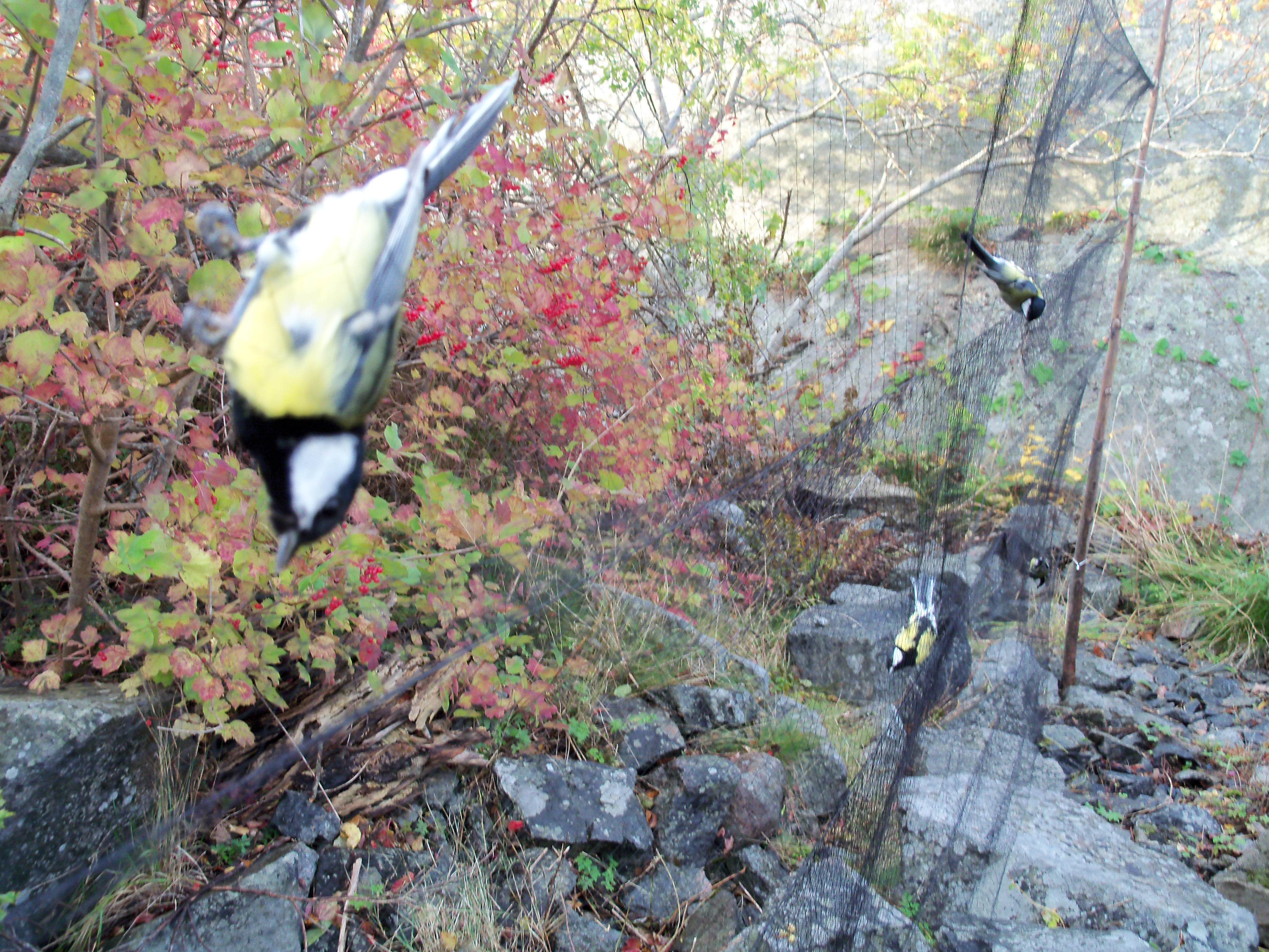 Great Tits (Parus major) at Landsort Lighthouse on the south cape of the island Öja (Landsort) ,south of Nynäshamn in Södermanland in Stockholm County in Sweden. Landsort Bird Observatory is responsible for the ringing.